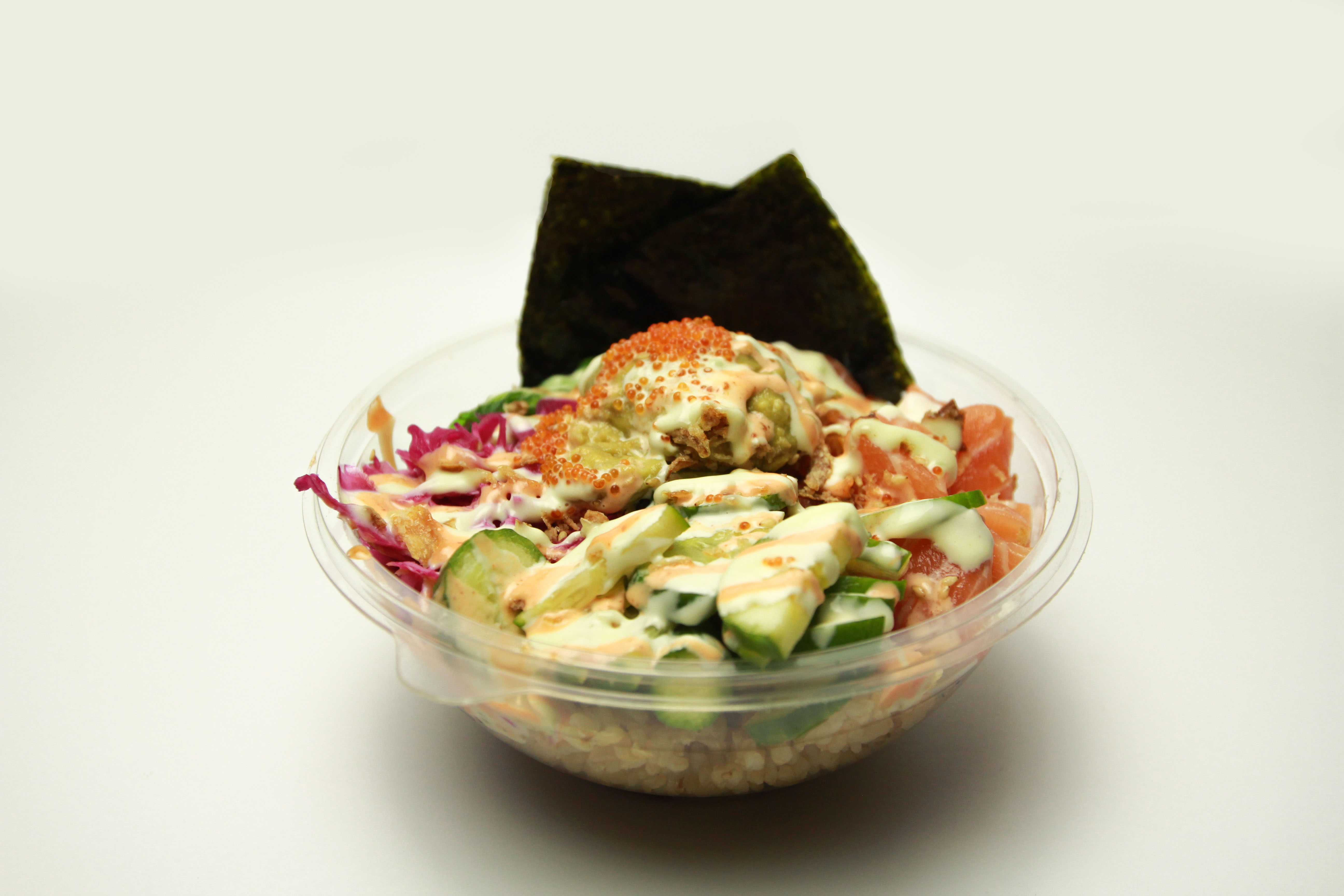 A salmon poke bowl with miso sushi rice, seaweed salad, avocado, tobiko, cucumber, pickled cabbage, sriracha mayo sauce